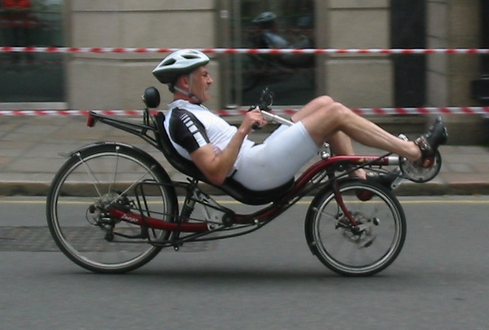 Jersey Town Criterium bicycle races, Saint Helier, Jersey, 24 May 2009